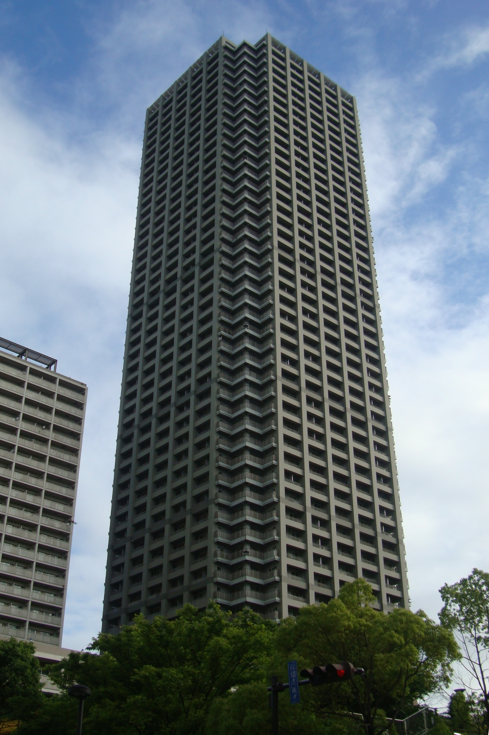 The Harumi View Tower (Harumi Island Triton Square View Tower) at Harumi, Chuo city, Tokyo